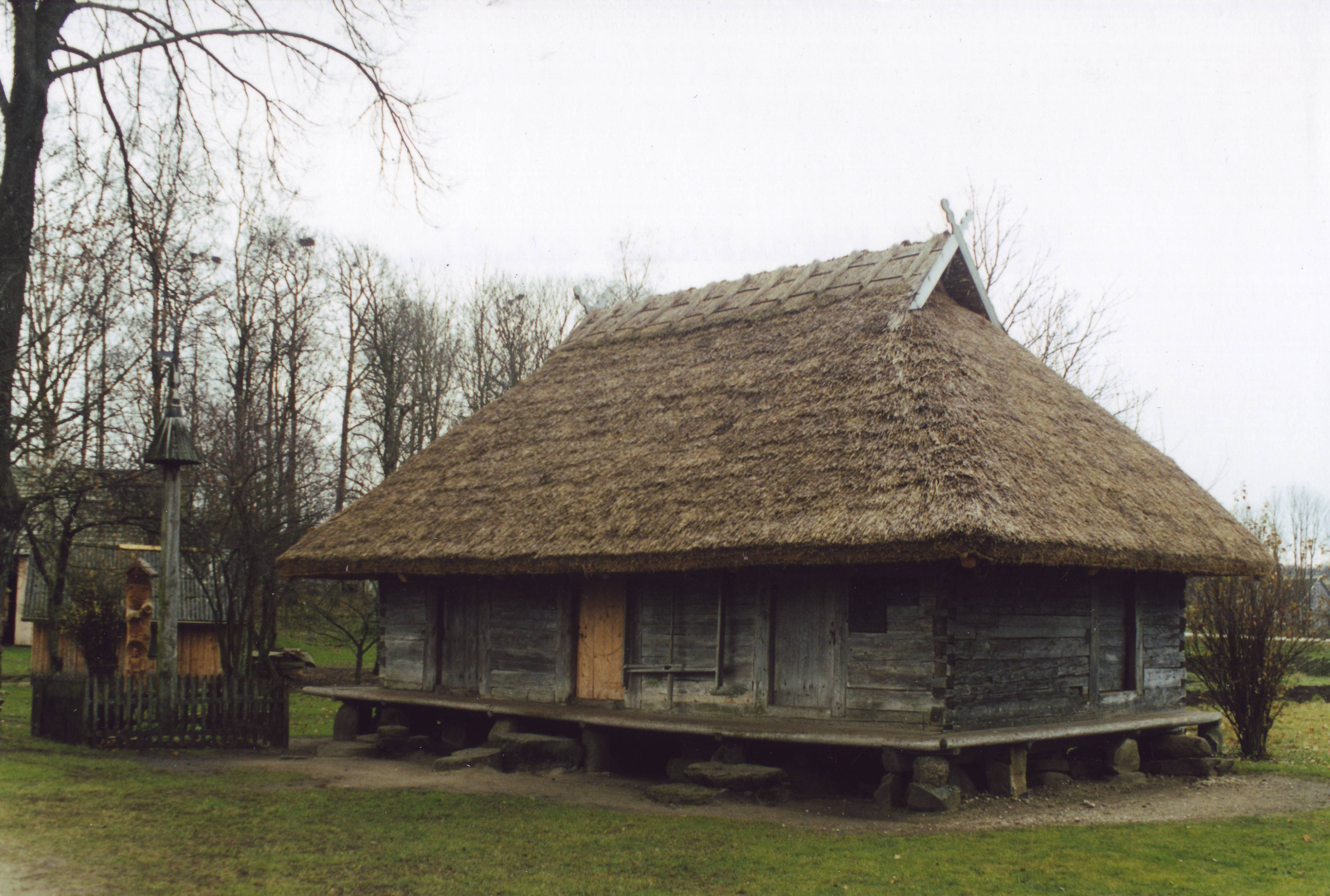 Nasrėnai, Kretinga district, LithuaniaLietuvių: Vyskupo Motiejaus Valančiaus gimtinės klėtis Nasrėnuose, Kretingos rajonas, Lietuva